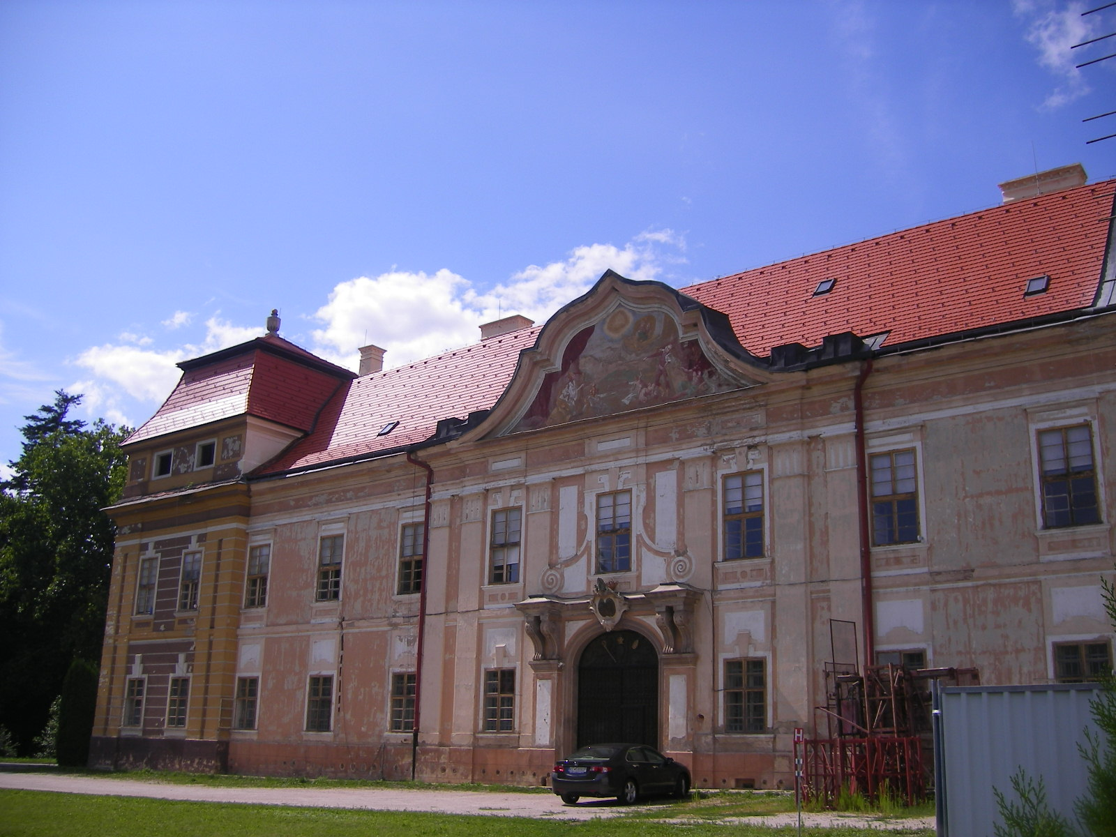 Jasov - abbey